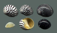 shells of Puperita pupa and its operculum.